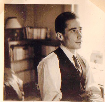 Le sinologue André Lévy